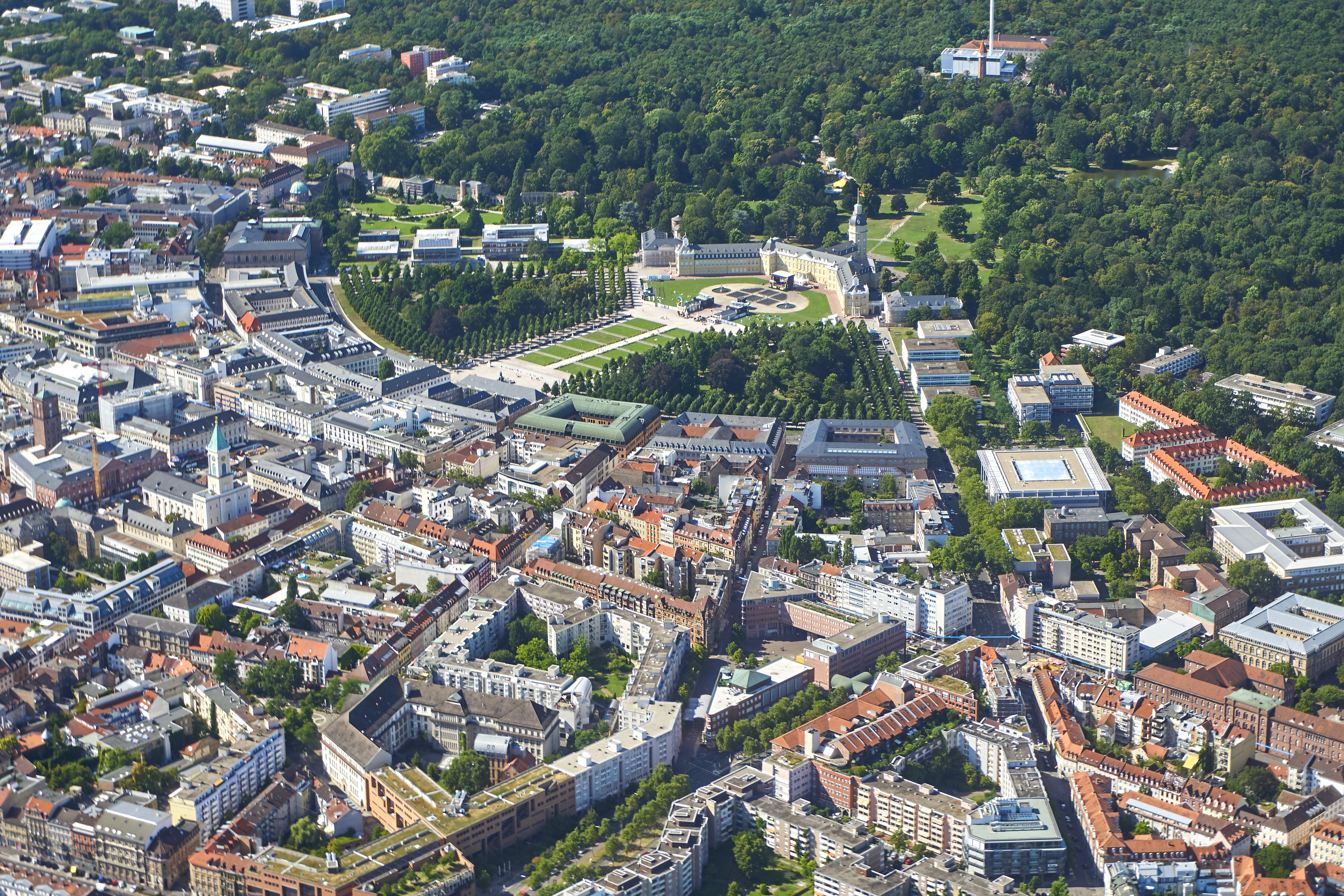 Aerial image of Karlsruhe Palace and the "fan city"